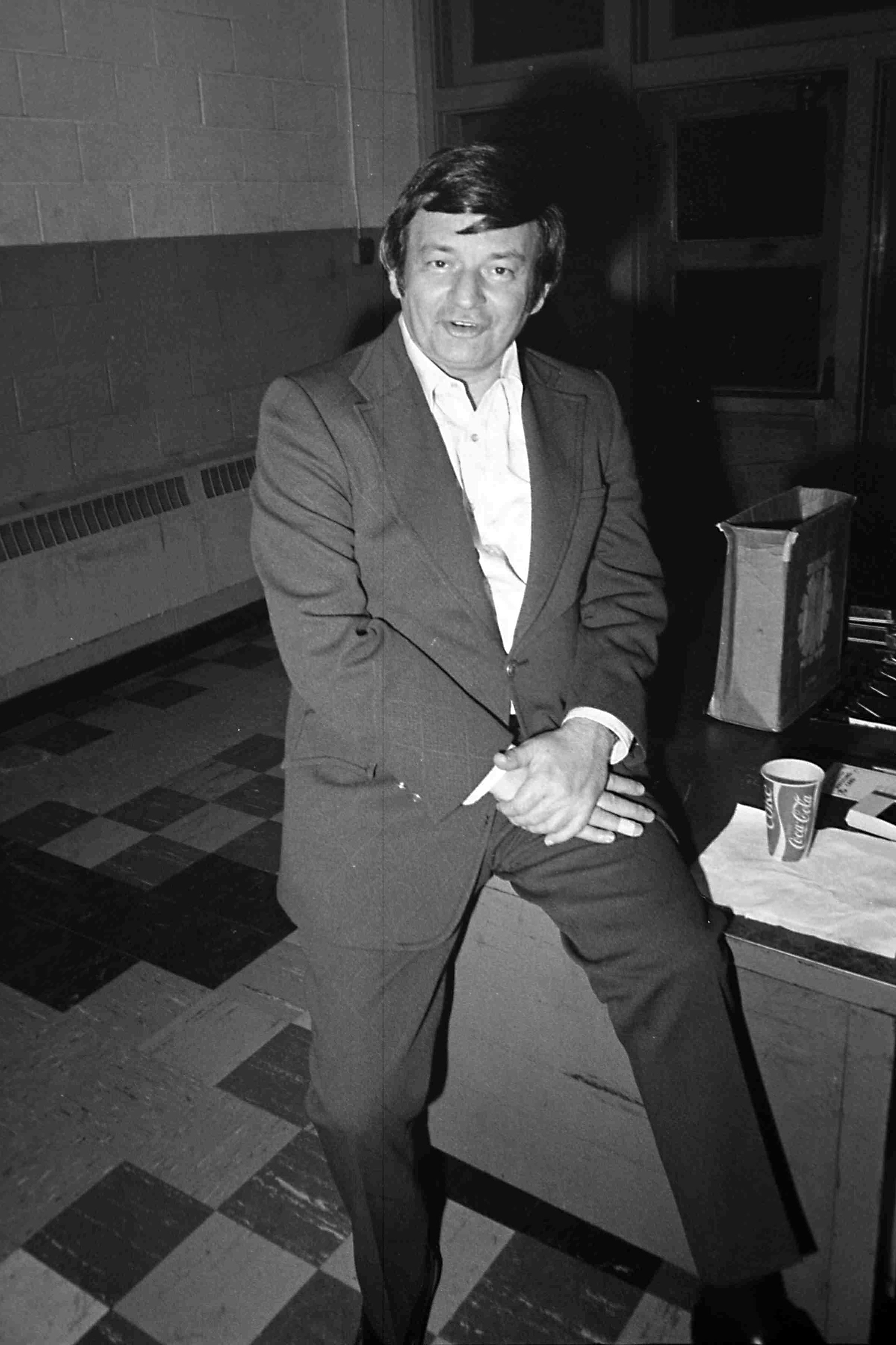 Freddie Miller, photographed before a live pro wrestling event at Fort Hill School in Dalton, Georgia in the late 1970s.